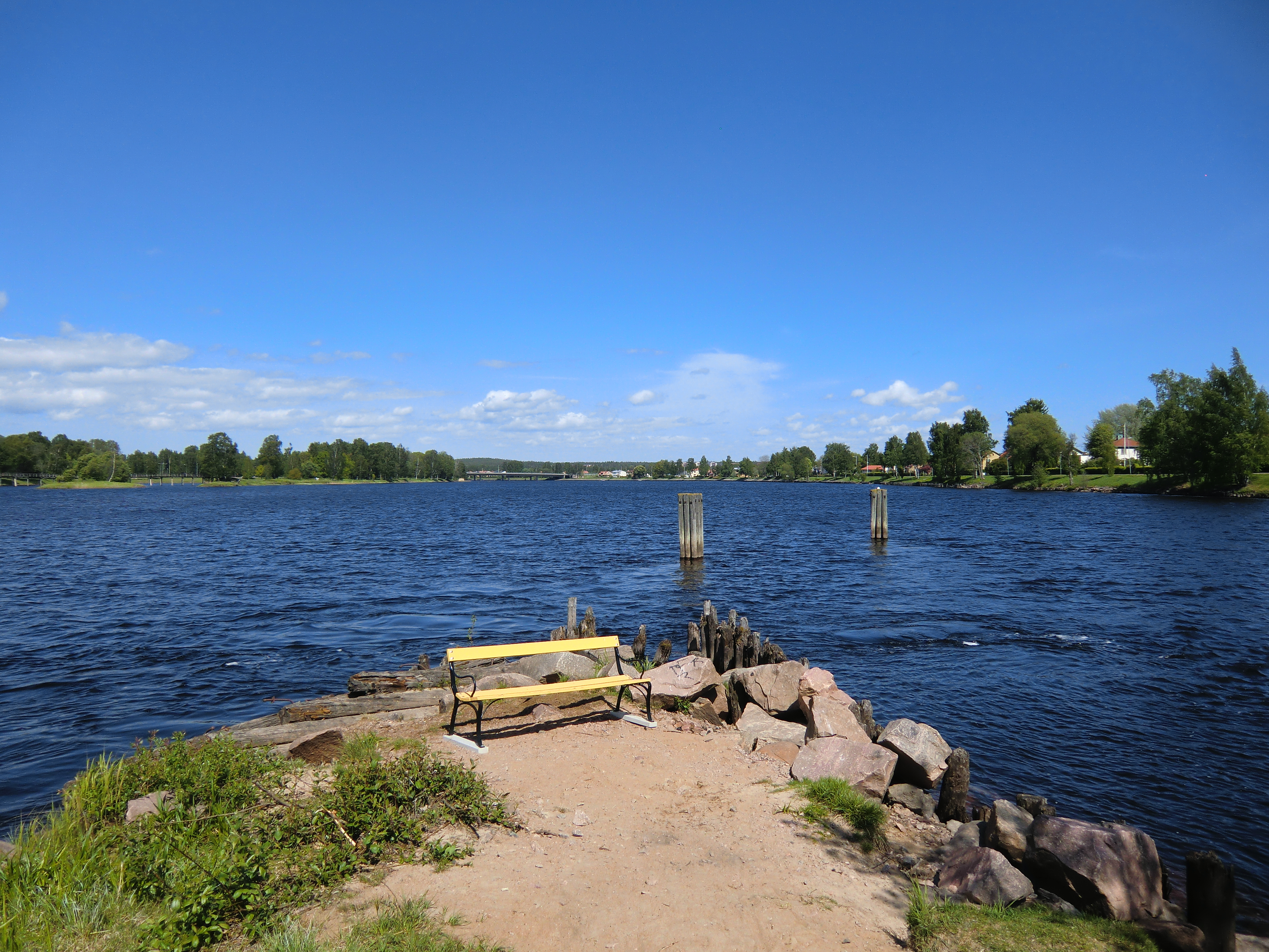 River Klarälven at Sandgrund in Karlstad. The river splits here and forms a delta.